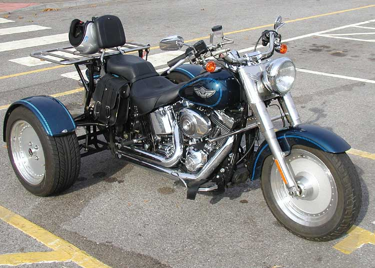 Harley-Davidson Trike, seen at Aust Motorway Services, Bristol, England.